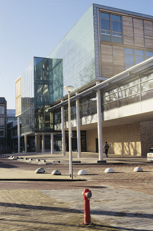 Medical library and Clinical Training Centre of the Radboud University Nijmegen Medical Centre in Nijmegen, the Netherlands